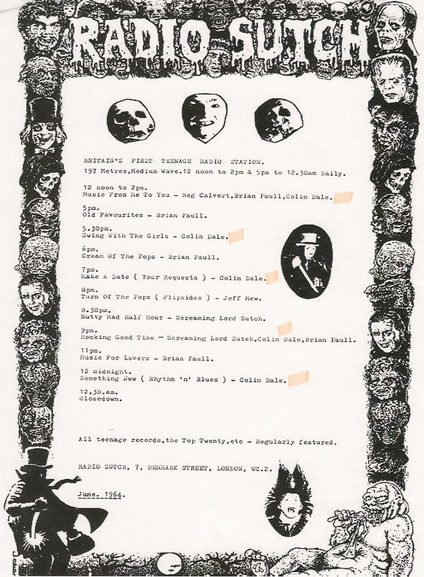 a programme sheet of the pirate radio station Radio Sutch